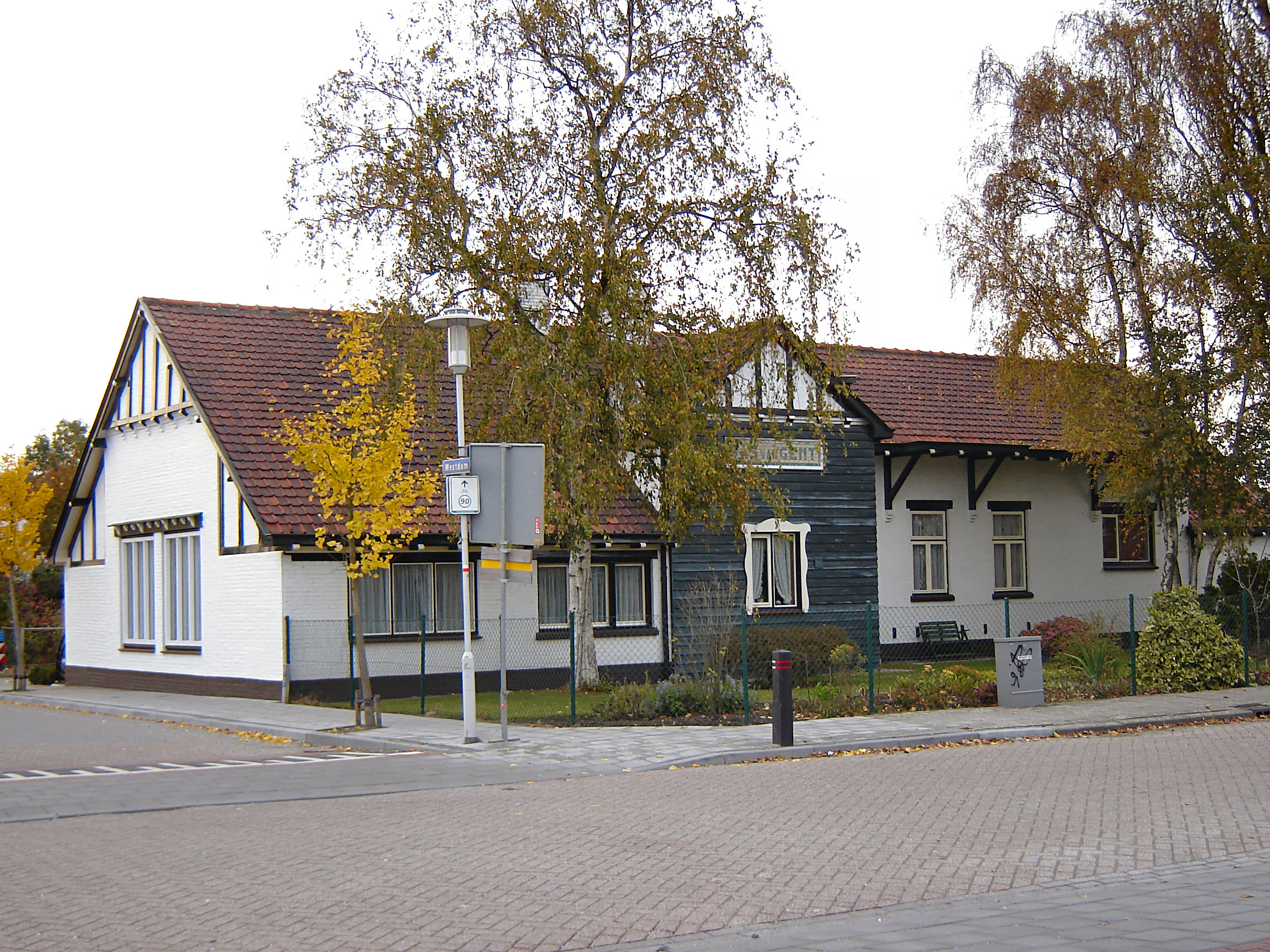 Former tram station of Sas van Gent. Sas van Gent, Terneuzen, Zeeland, the Netherlands